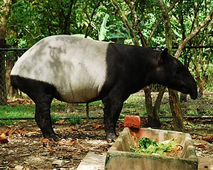 zoo negara tapir